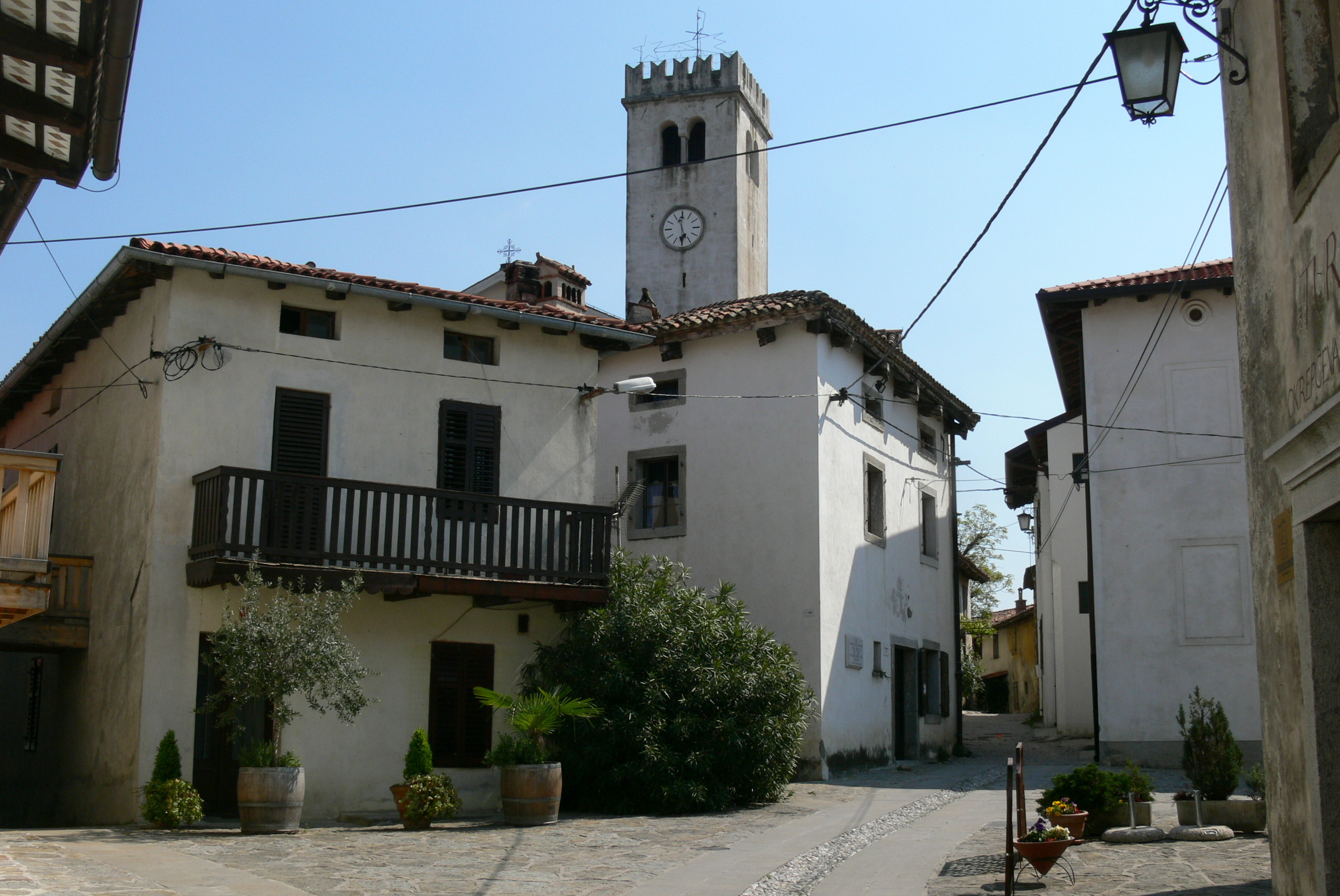 Šmartno ( Slovenia ). Square behind a fortress gate.